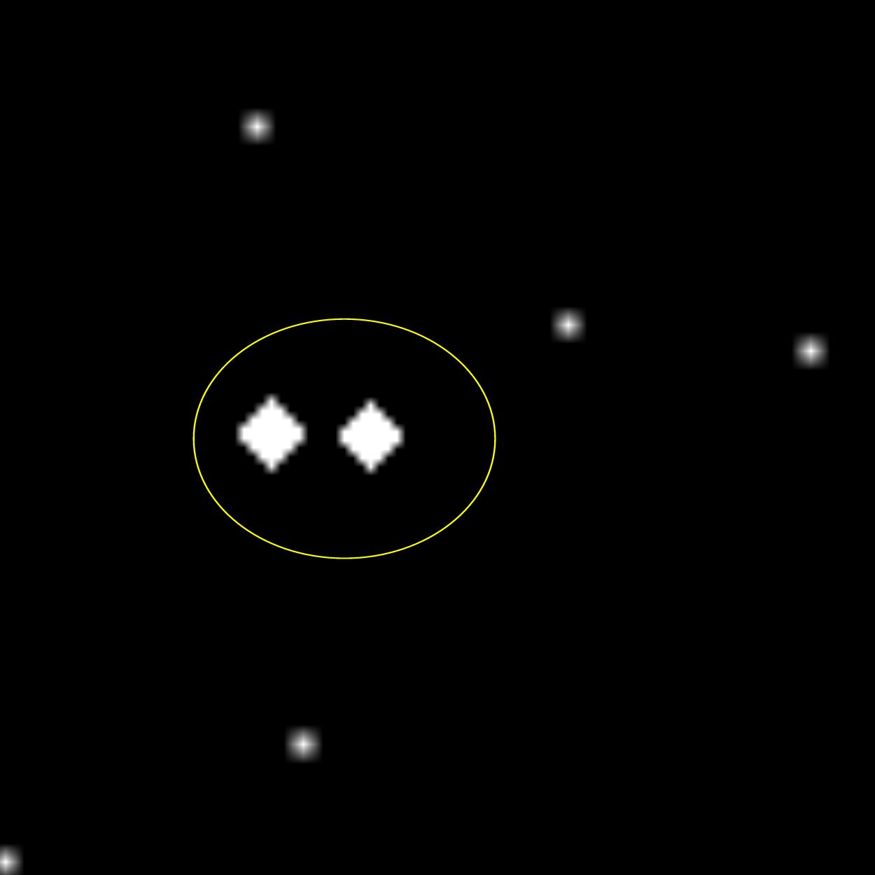 Star map of double star system NGC 8.